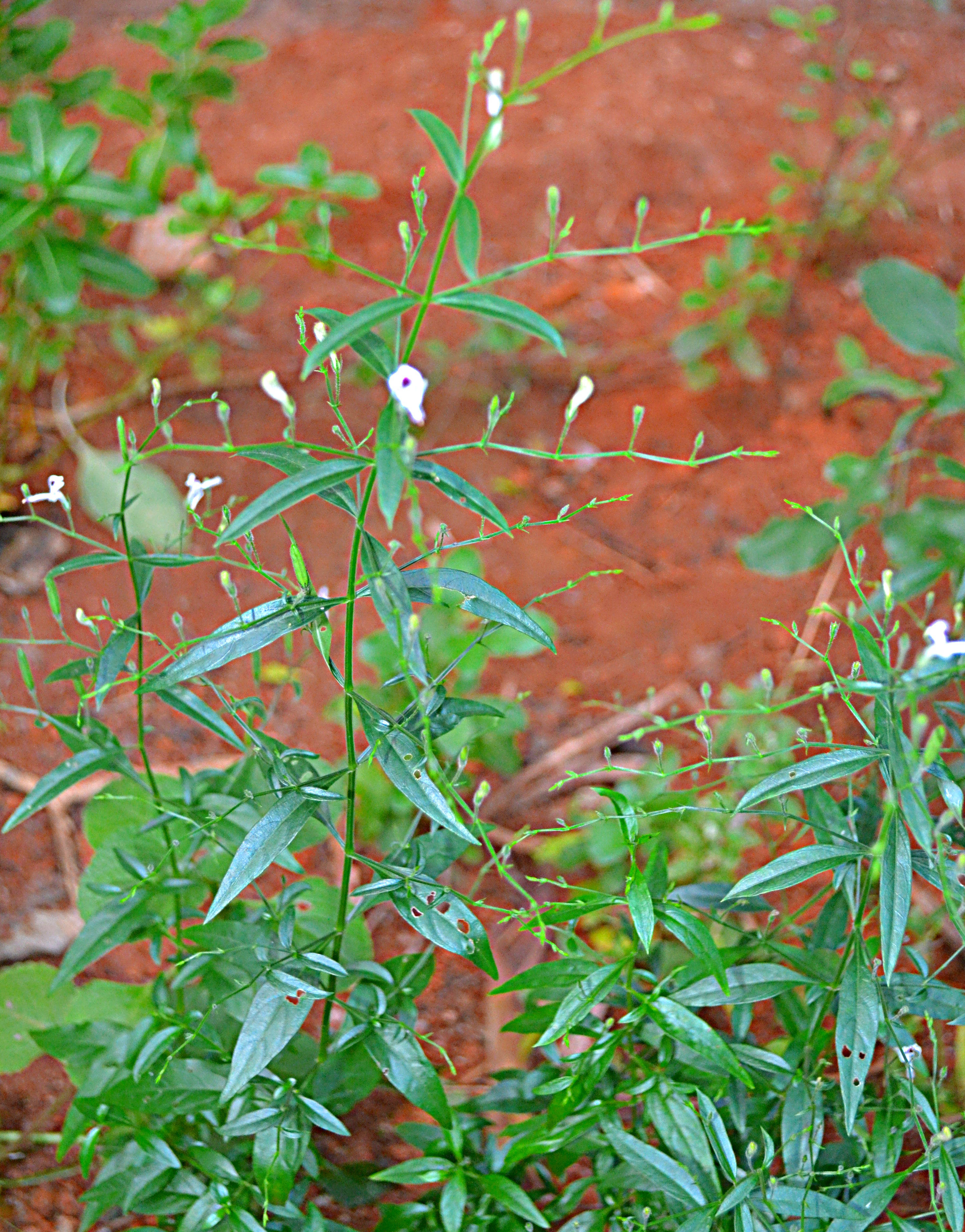 Plant of Andrographis paniculata (Malayalam കിരിയത്ത് or കിരിയാത്തKiriyatha) Andrographis paniculata is one of the important plants used in the Ayurvedic medicines in Kerala and other parts of India. The highly bitter plant is used either as whole or in parts for such medicines.